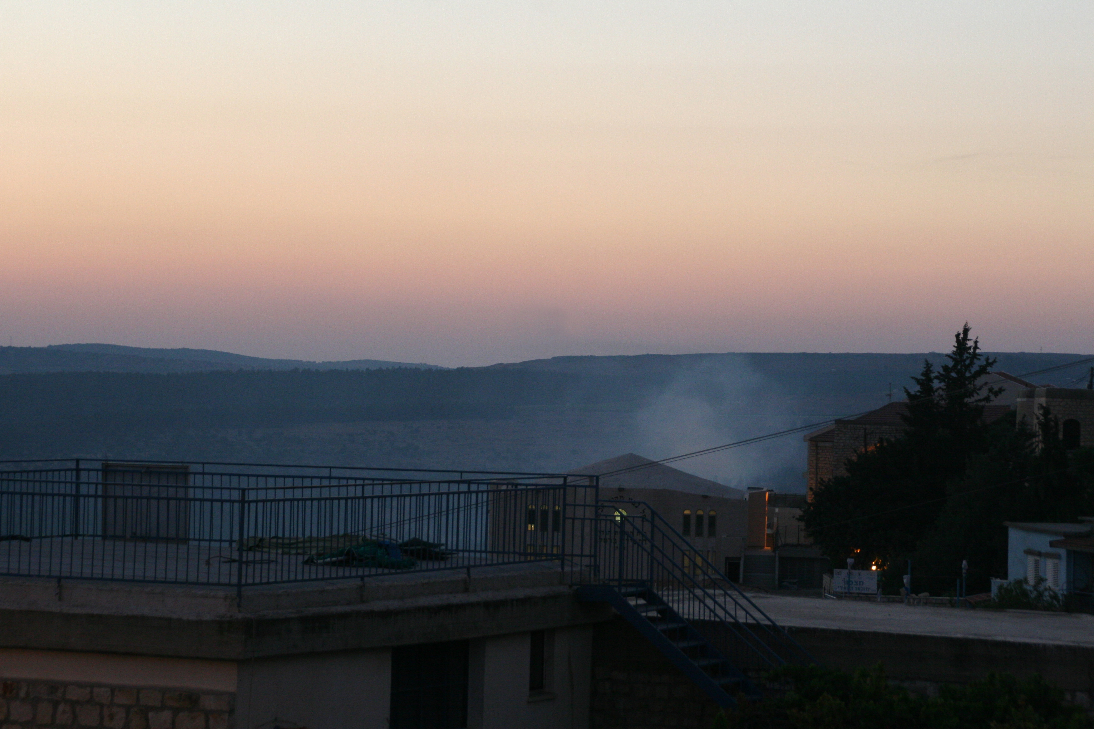 Smoke from a Katyusha rocket landing near Safed in Israel during the 2006 Israel-Lebanon conflict.